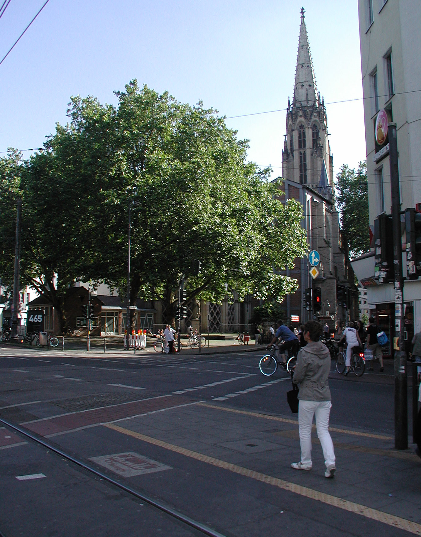 Cologne, Zülpicher Platz and church "Herz Jesu"